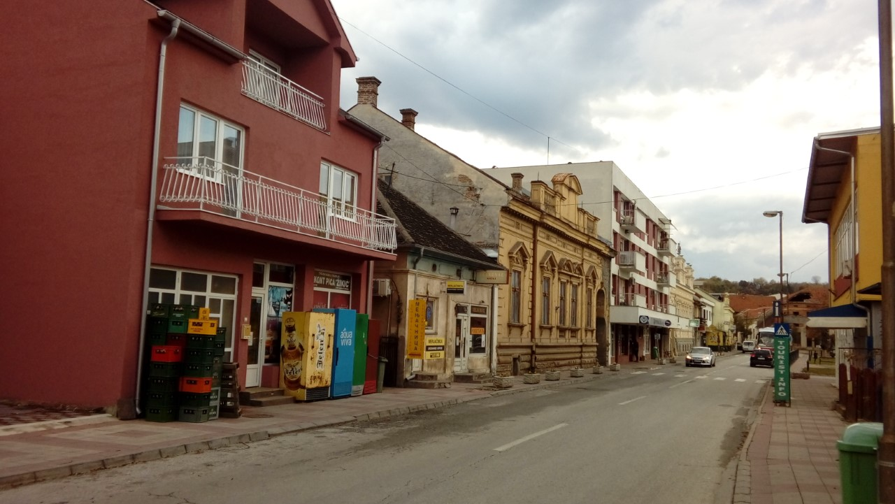 Golubac, Serbia Srpski (latinica): Glavna ulica u Golupcu